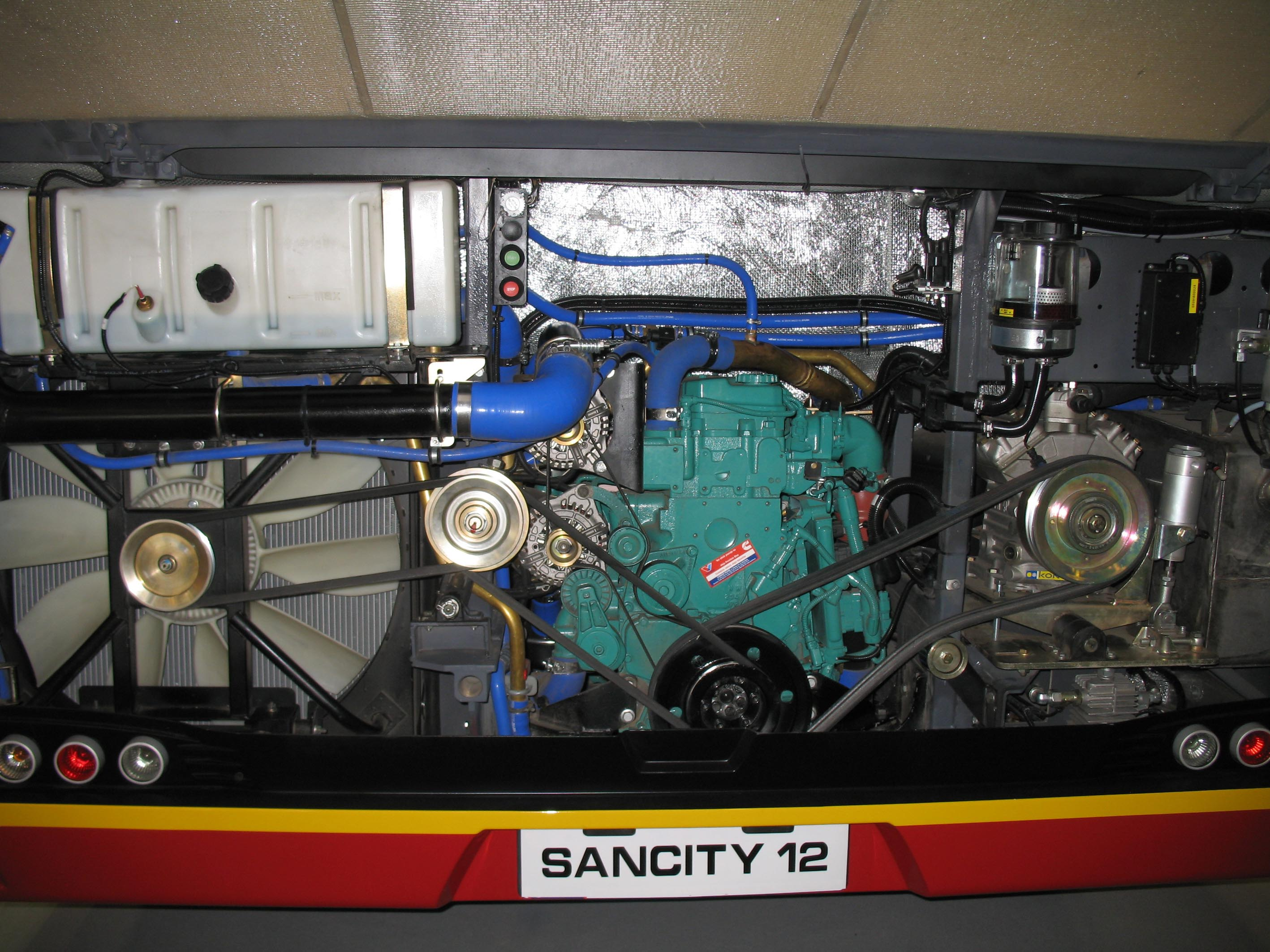 Autosan M12LE Sancity bus with Cummins ISB6.7E5 250B diesel engine in Kielce, Poland. Built 2009. Transexpo 2009.